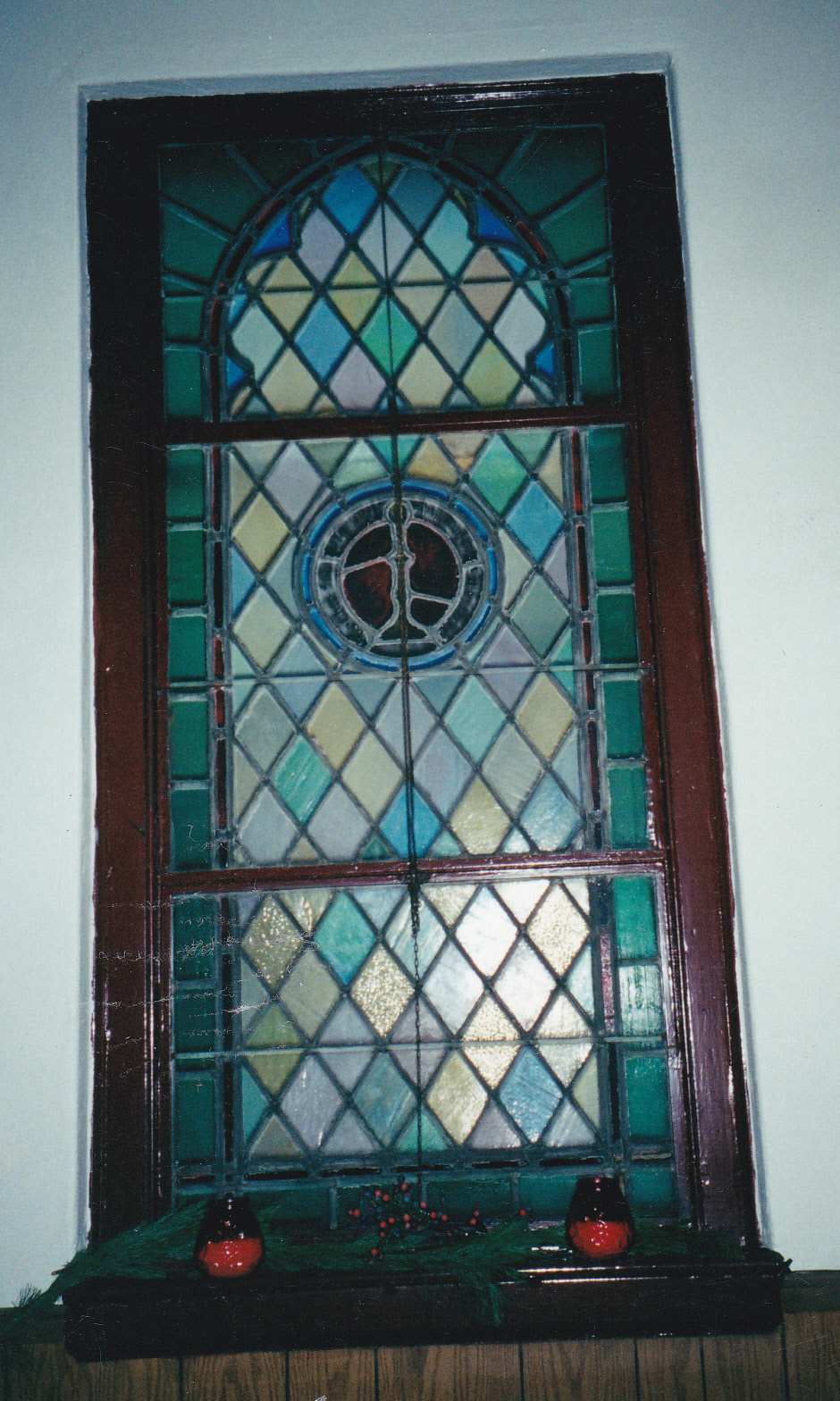 Bay Ridge United Church Candle Window